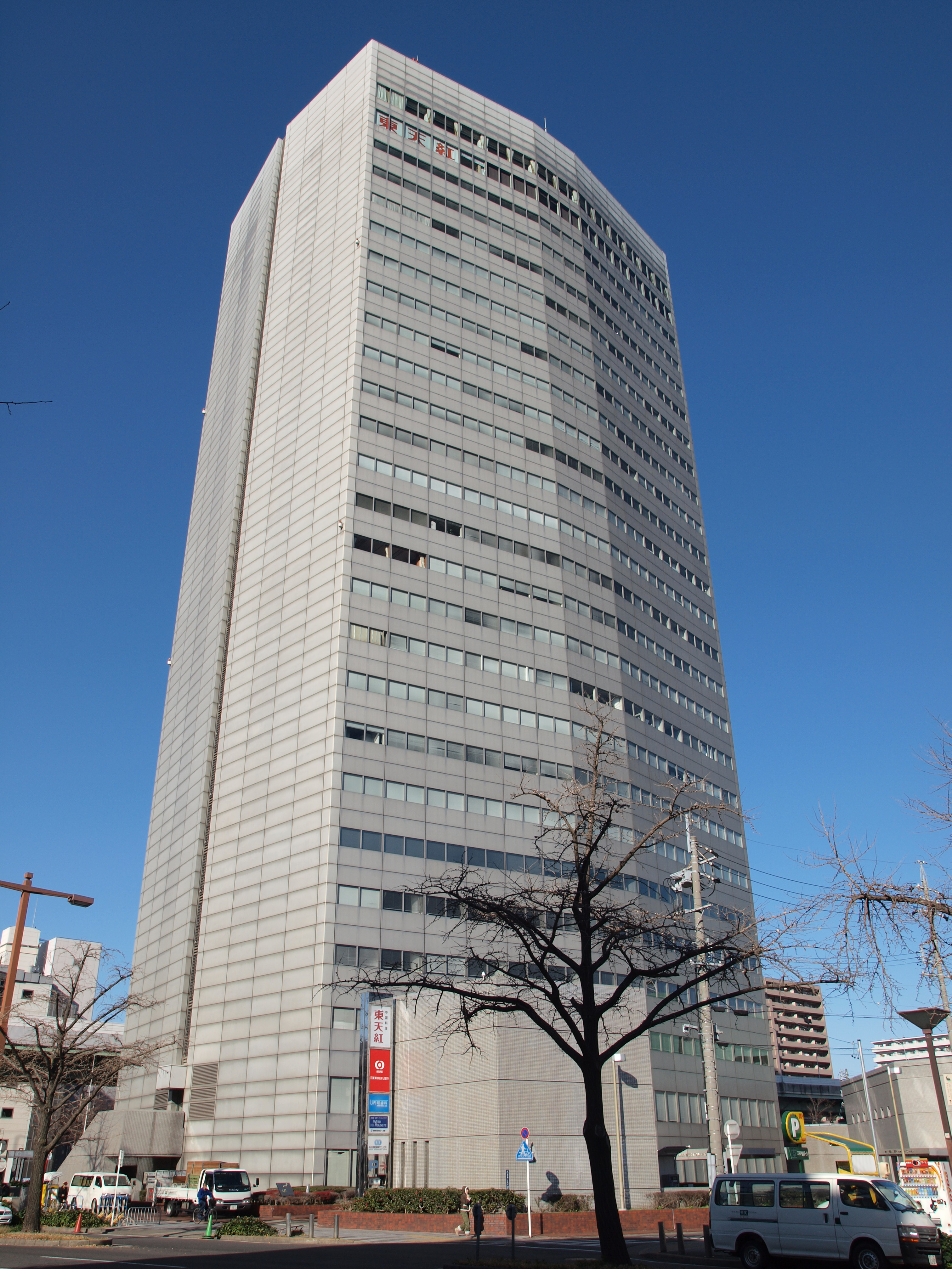 Nagoya International Center Building